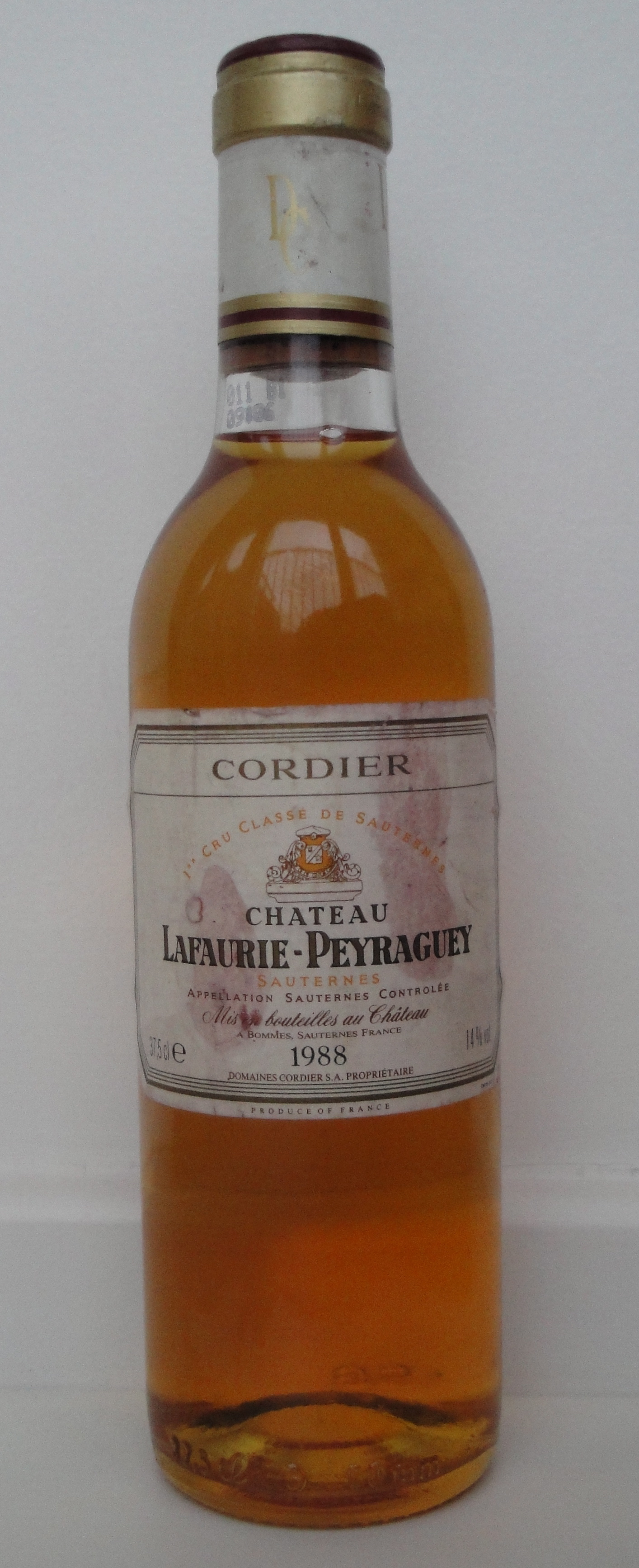 Half bottle of 1988 Château Lafaurie-Peyraguey, a wine from Sauternes in Bordeaux, classified as a First Growth in the 1855 Bordeaux classification.